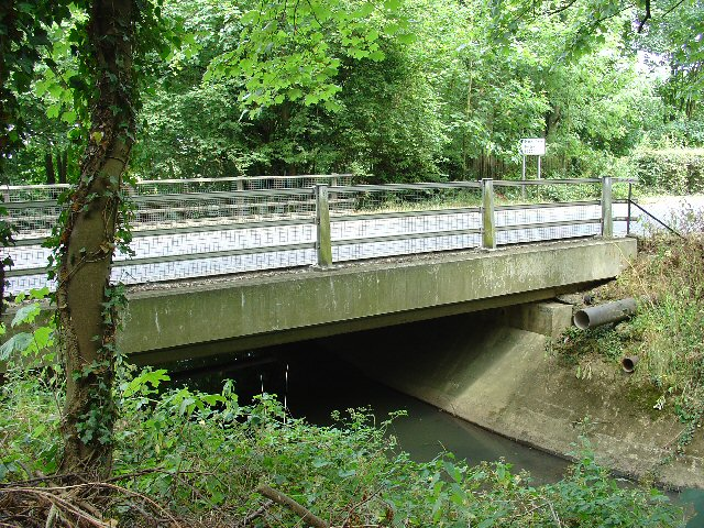 Tinsley Bridge, over the Gatwick Stream, Tinsley Green, Crawley, West Sussex. The Gatwick stream is one of the main drainage channels for this area. Levels can rise quickly and flooding is a possibilty. Just out of view is a depth gauge. View taken looking N.